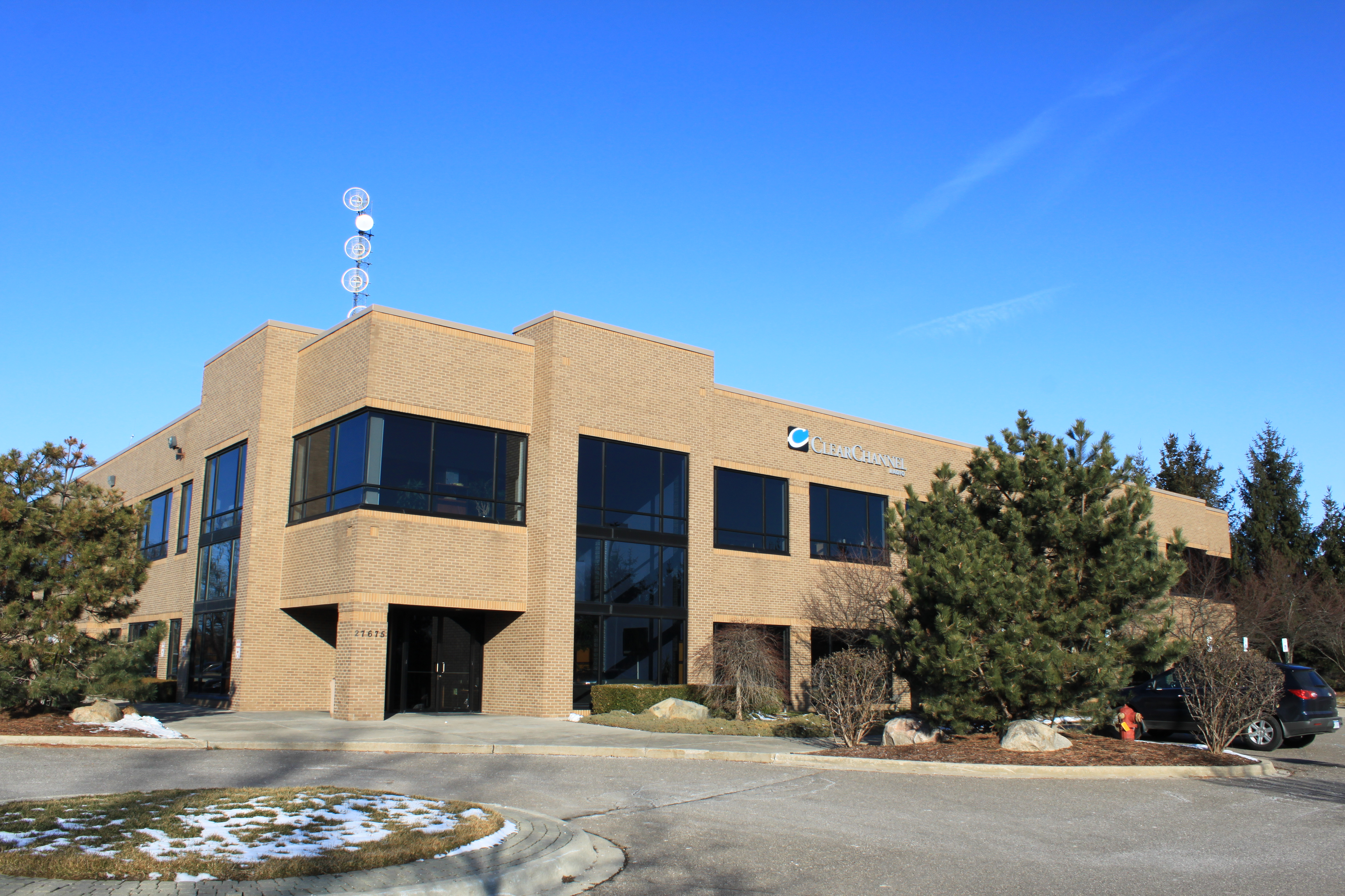 Clear Channel Building, location of the studios of several Detroit area radio stations, 27675 Halsted Road, Farmington Hills, Michigan.